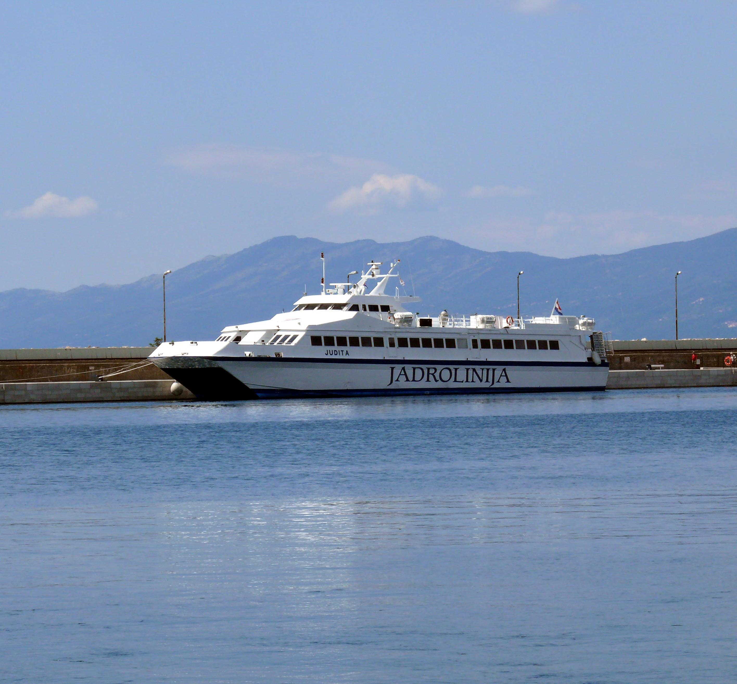 Rijeka harbour, Croatia, with the JUDITA IMO Number: 9005778 MMSI Number: 238116540 Callsign: 9A7582 Length: 41 m Beam: 11 m